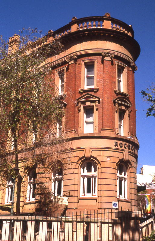 Former ANZ Bank building, Oxford Street, Darlinghurst, Sydney, photo by Sardaka 11:45, 11 October 2007 (UTC)